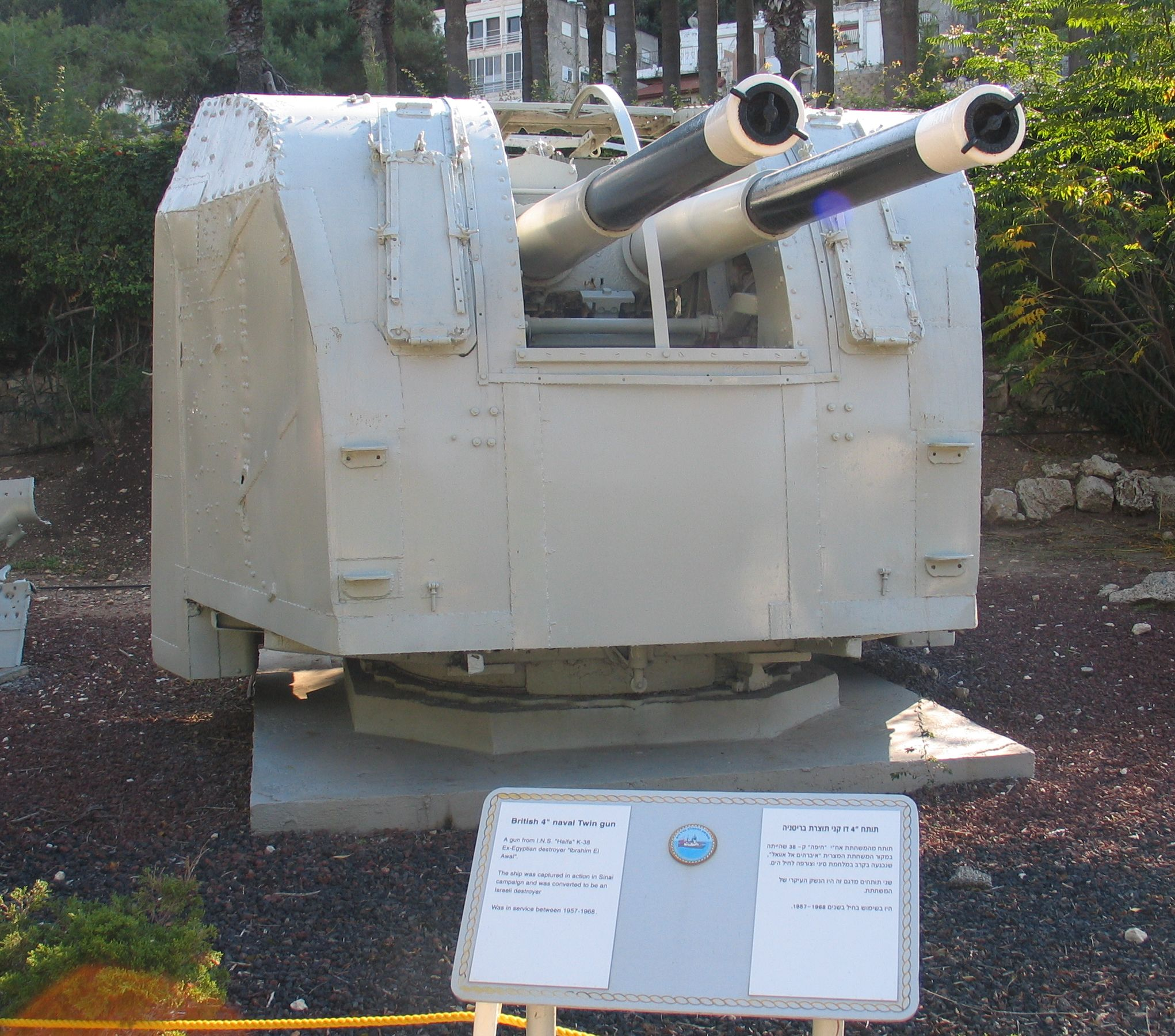 Twin 4-inch gun from INS Haifa (K-38) (apparently QF 4 in Mk XVI on twin mount Mk XIX) in the Clandestine Immigration and Naval Museum, Haifa, Israel.